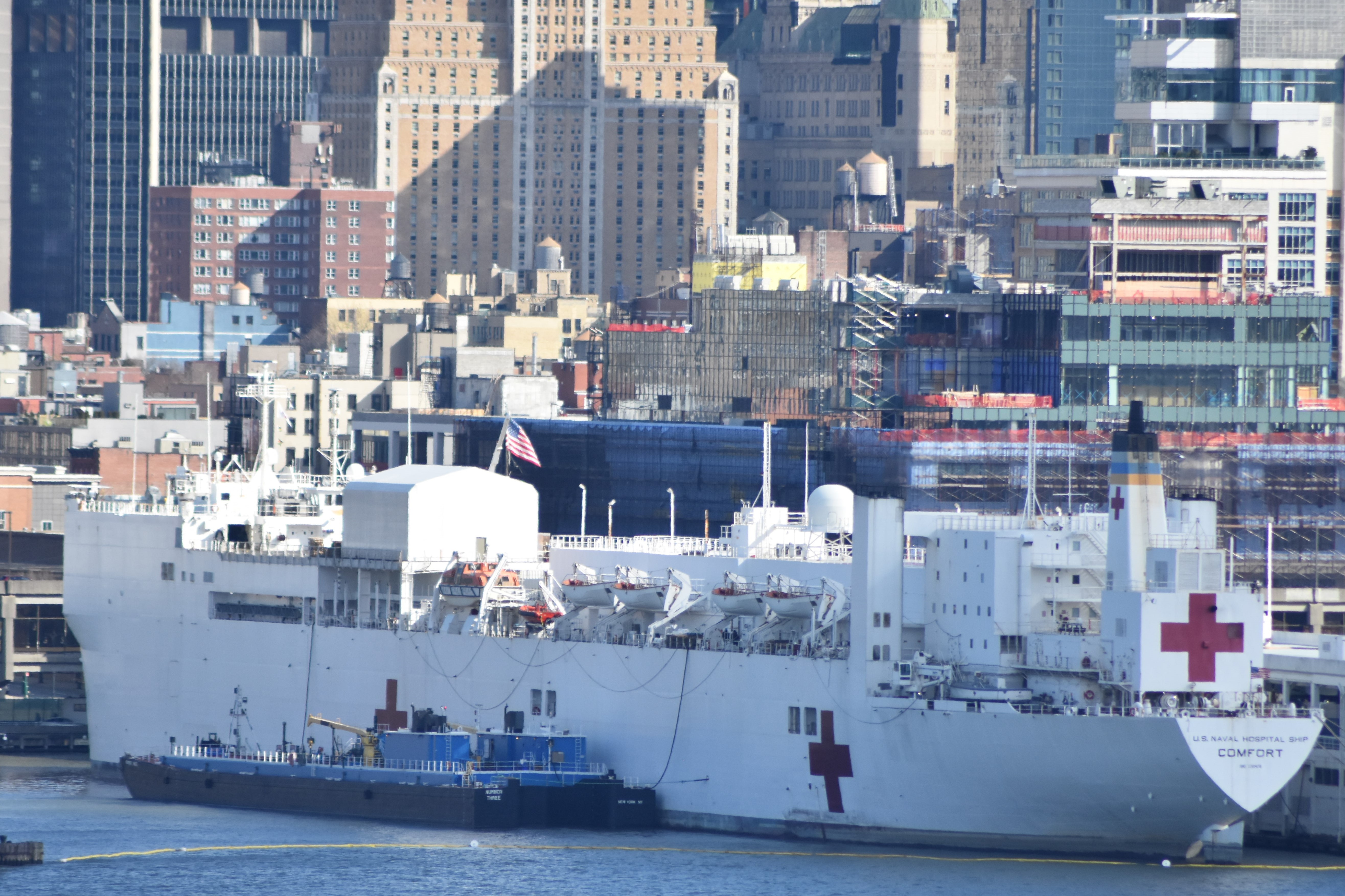 USNS Comfort docked on the west side of Manhattan, New York City, on 1 April 2020. The Comfort was dispatched to treat non-COVID-19 patients during the coronavirus pandemic.